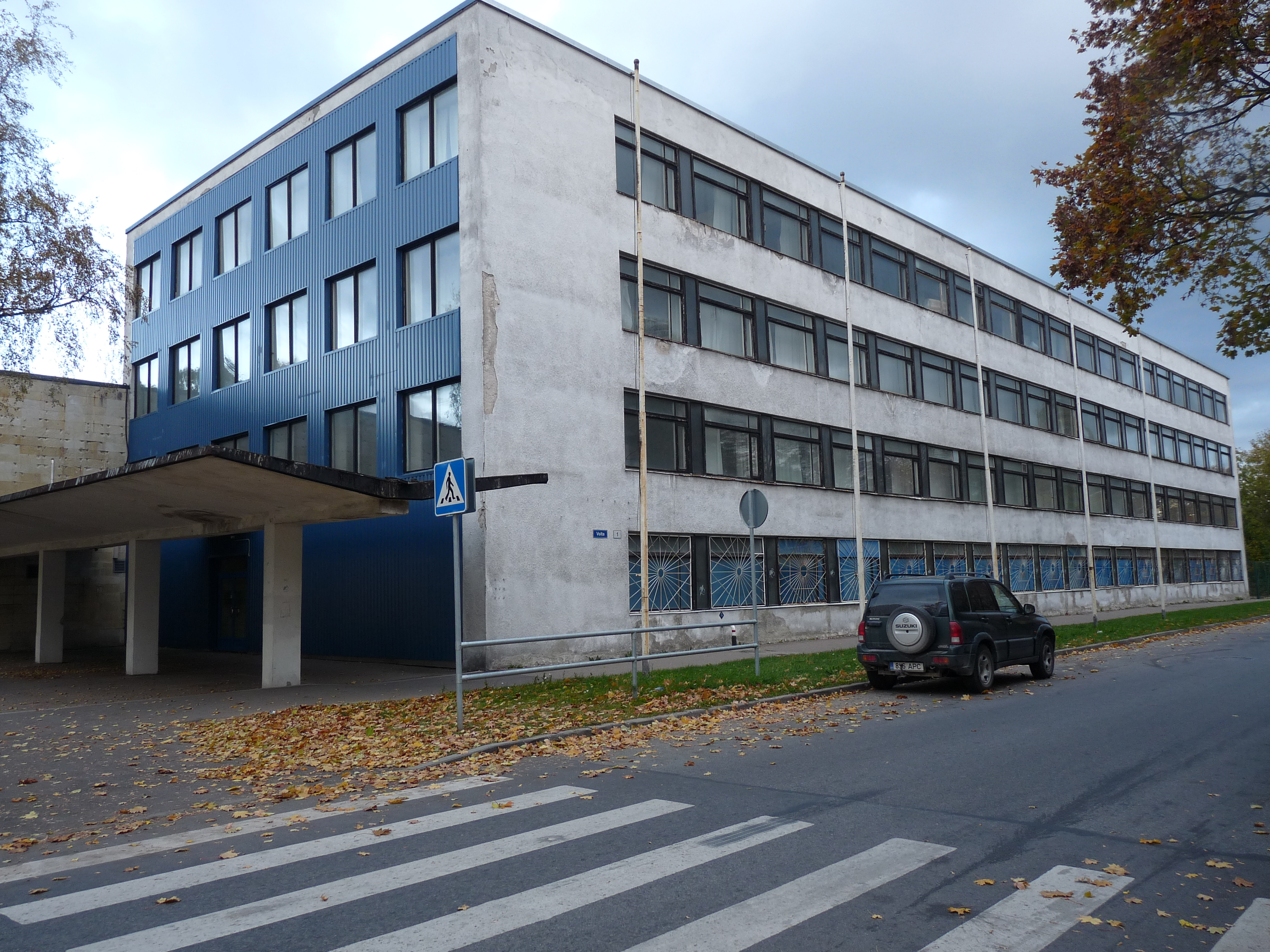 Franz Krull factory in Tallinn. Built in 1900 Nowadays it's name is Tallinna Masinatehas AS (joint stock company Tallinn Machinery factory).